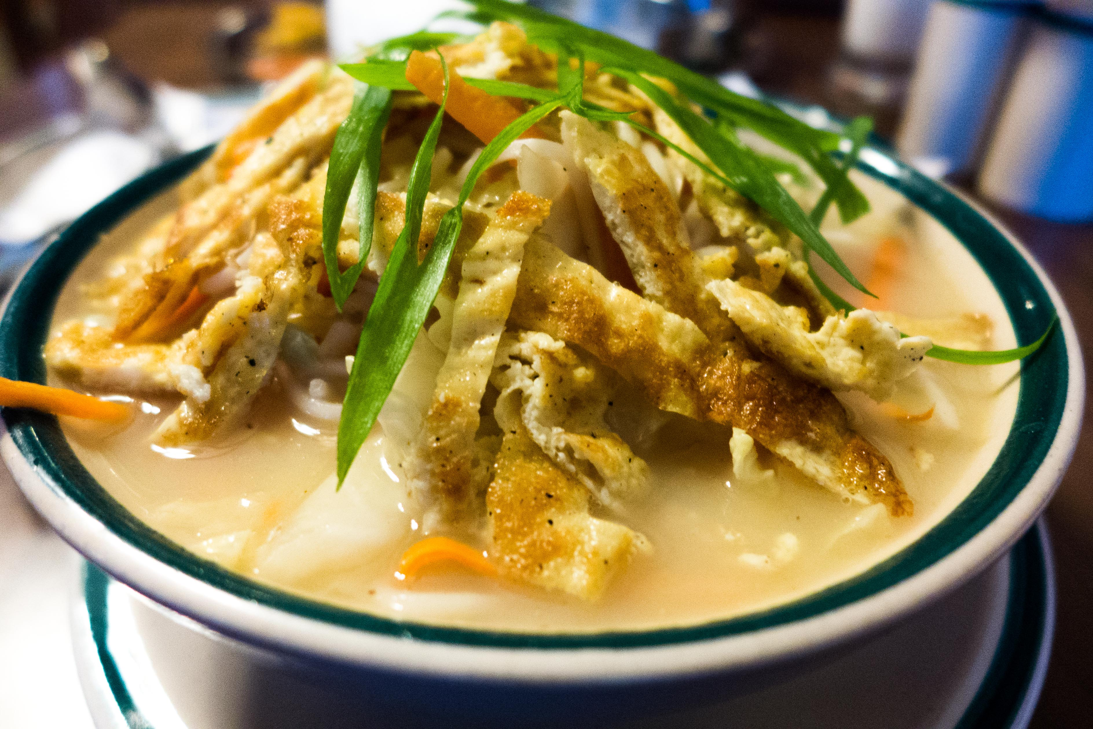 Egg Thukpa - Noodles served in soup